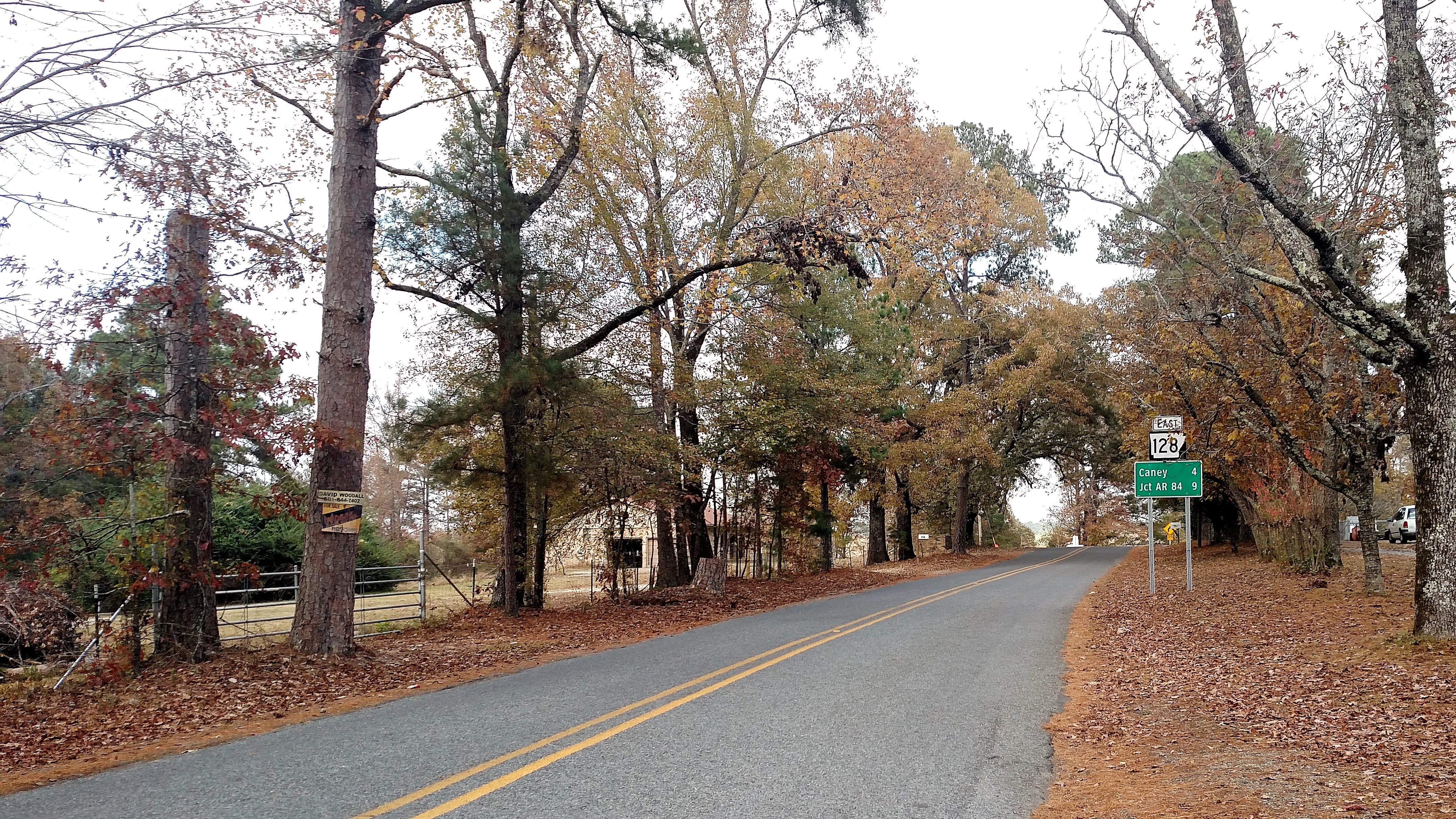 Highway 128 eastbound from the Highway 7 junction south of Bismarck, AR